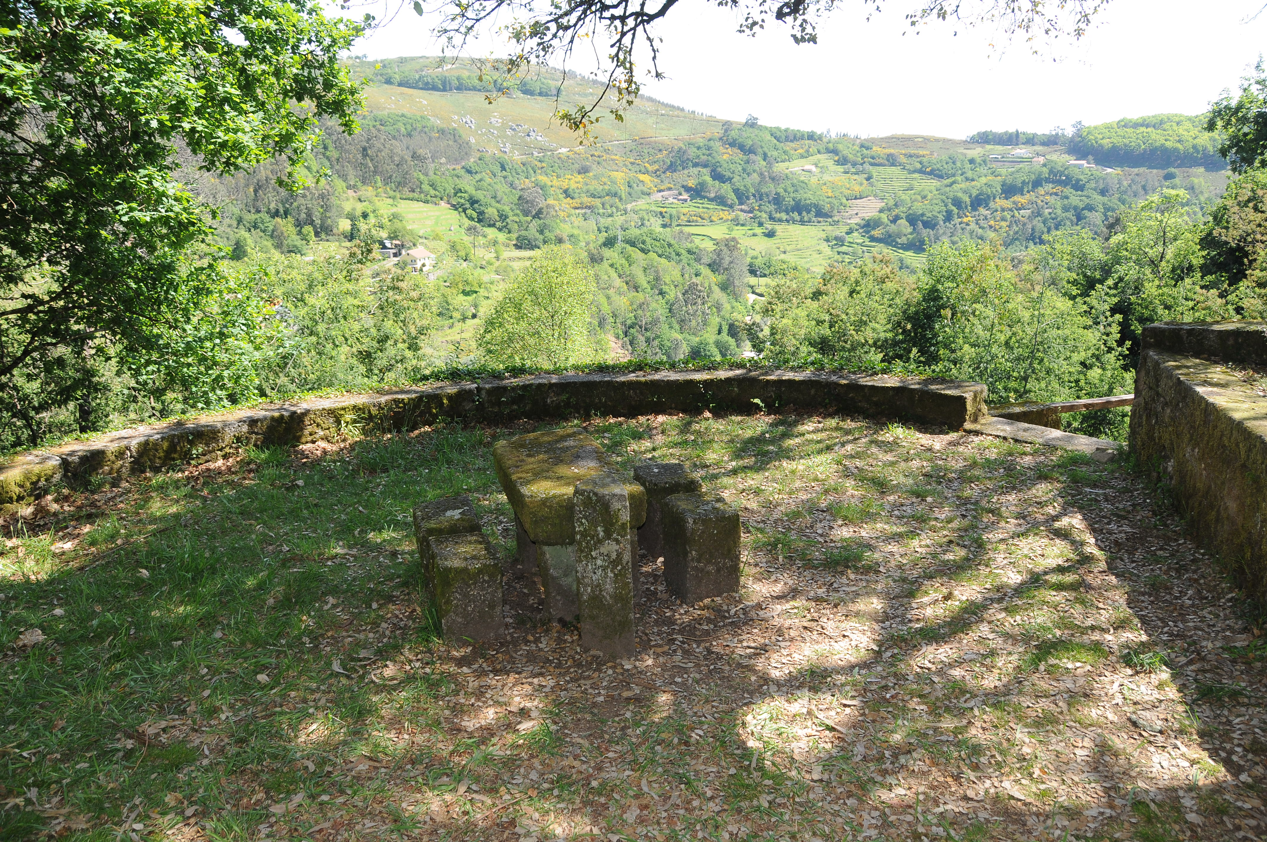 Mesa dos quatro abades, a granite table in Ponte de Lima, Portugal